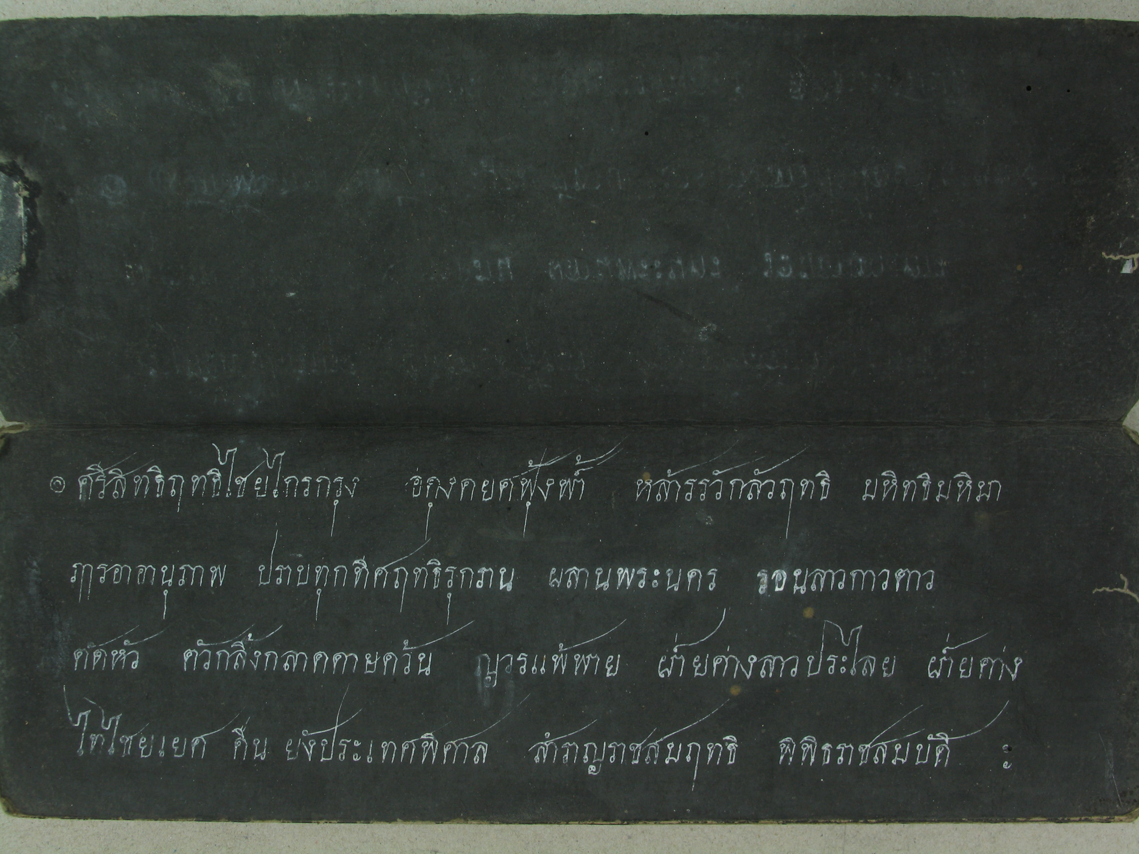 Folio 2 from an undated (c. 19th century?) samut khoi copy of the Thai poem Lilit Phra Lo. Item #17075 in the collection of Chiang Mai University Library.